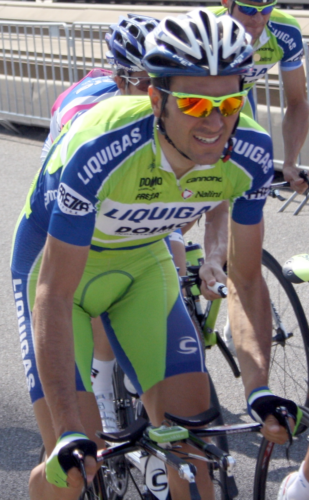 Ivan Basso training for the prologue of the 2010 Tour de France in Rotterdam